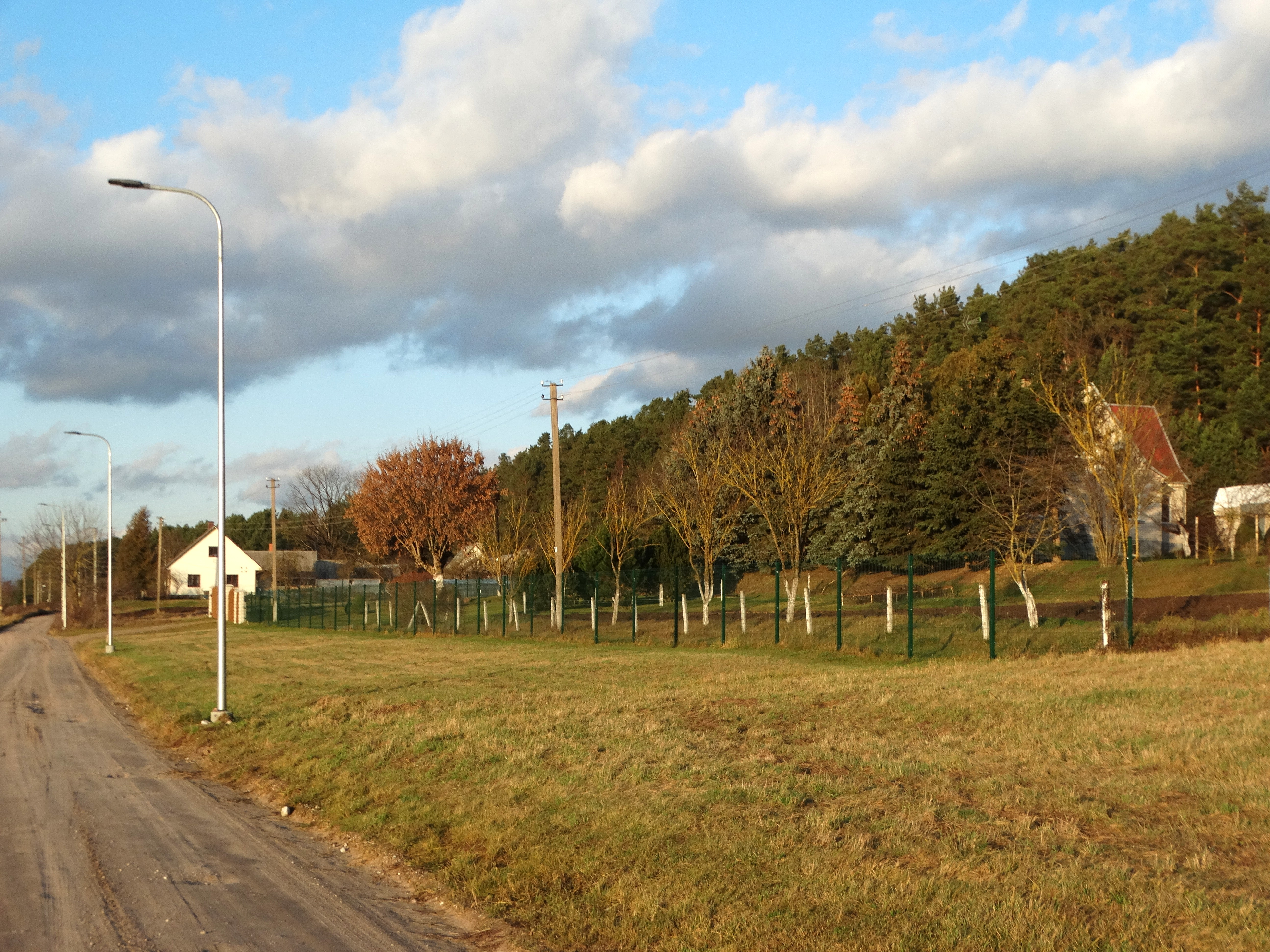 Paštuva, Kaunas District, Lithuania